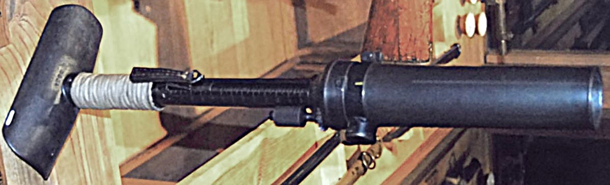 Japanese Grenade discharger Type 10, captured during World War II